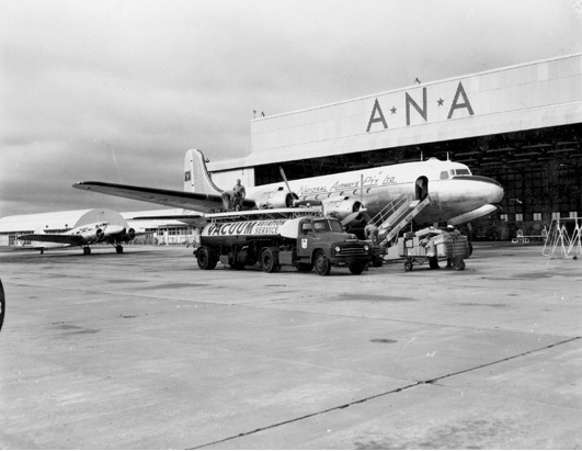 012059D: Refuelling an A.N.A. airplane at Perth Airport, 1955